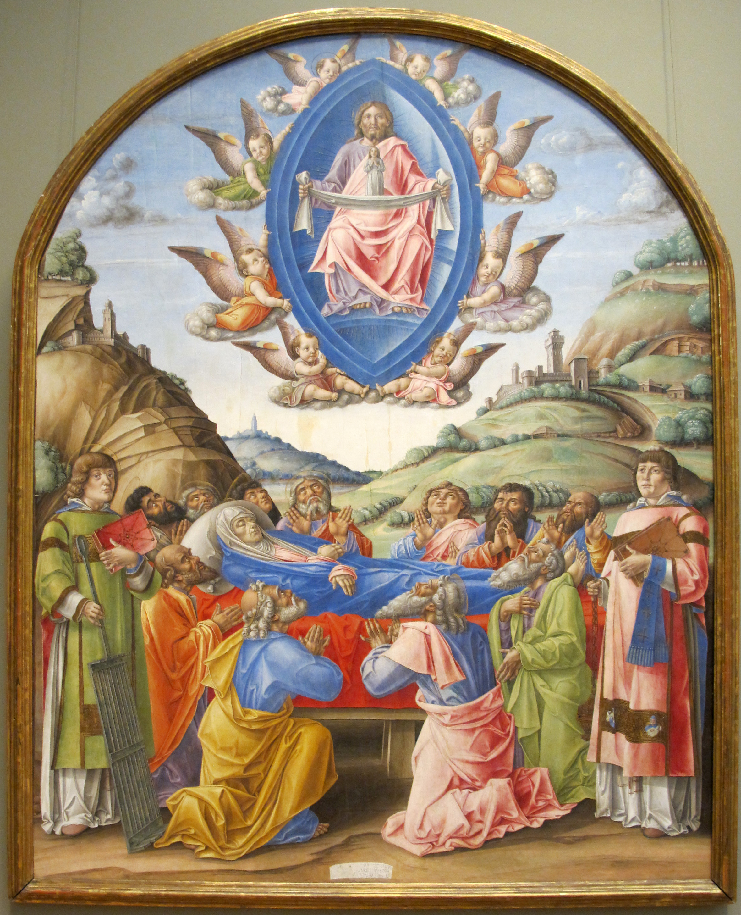 Paintings of the Italian Renaissance in the Metropolitan Museum of Art